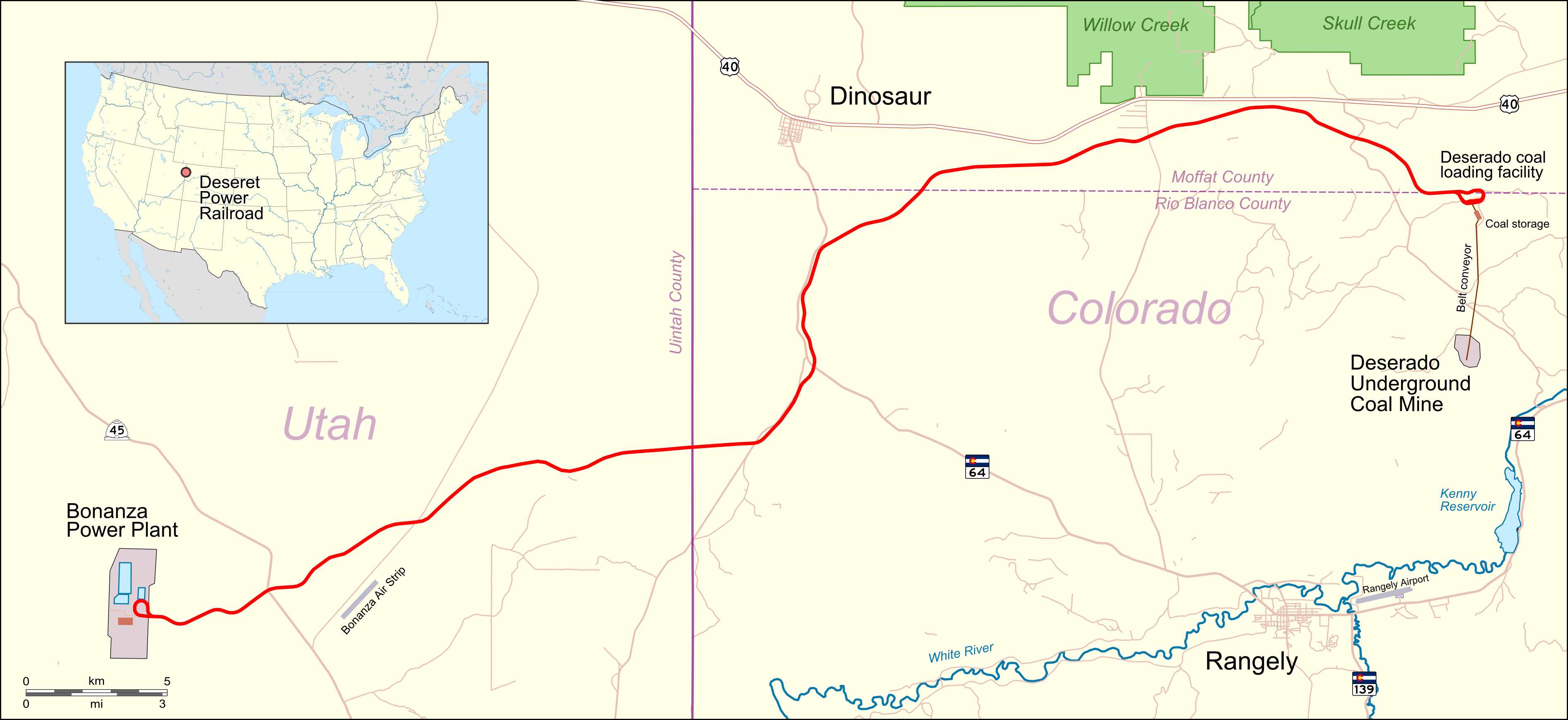 Location map of Deseret Power Railroad